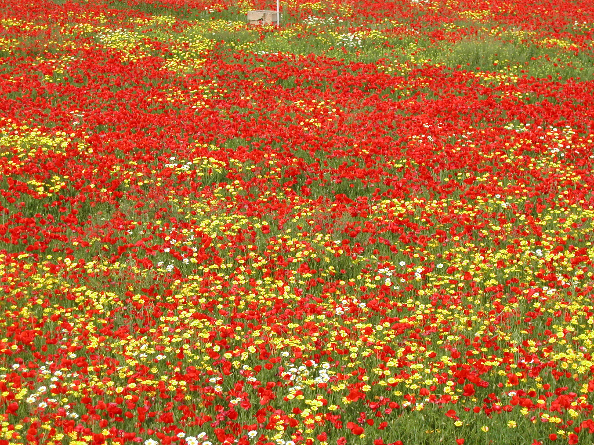 Flowering corn poppies (Papaver rhoeas) and other plants at Sa Casa Blanca, Mallorca; see UIB herbarium